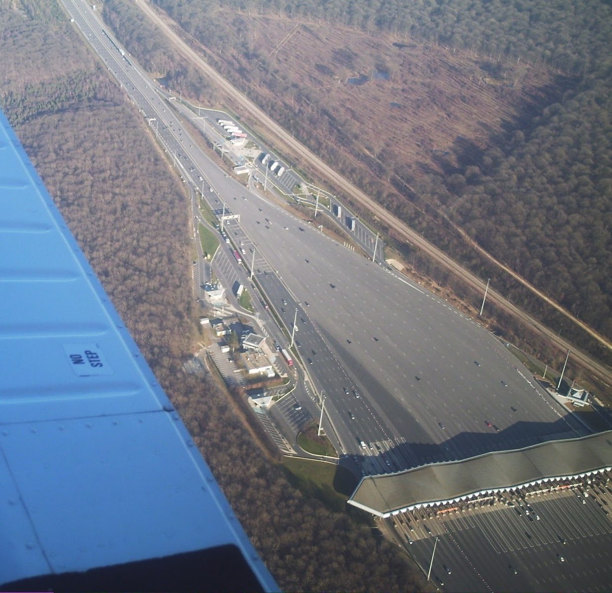 Aerial photography of the Saint-Arnoult-en-Yvelines's toll.